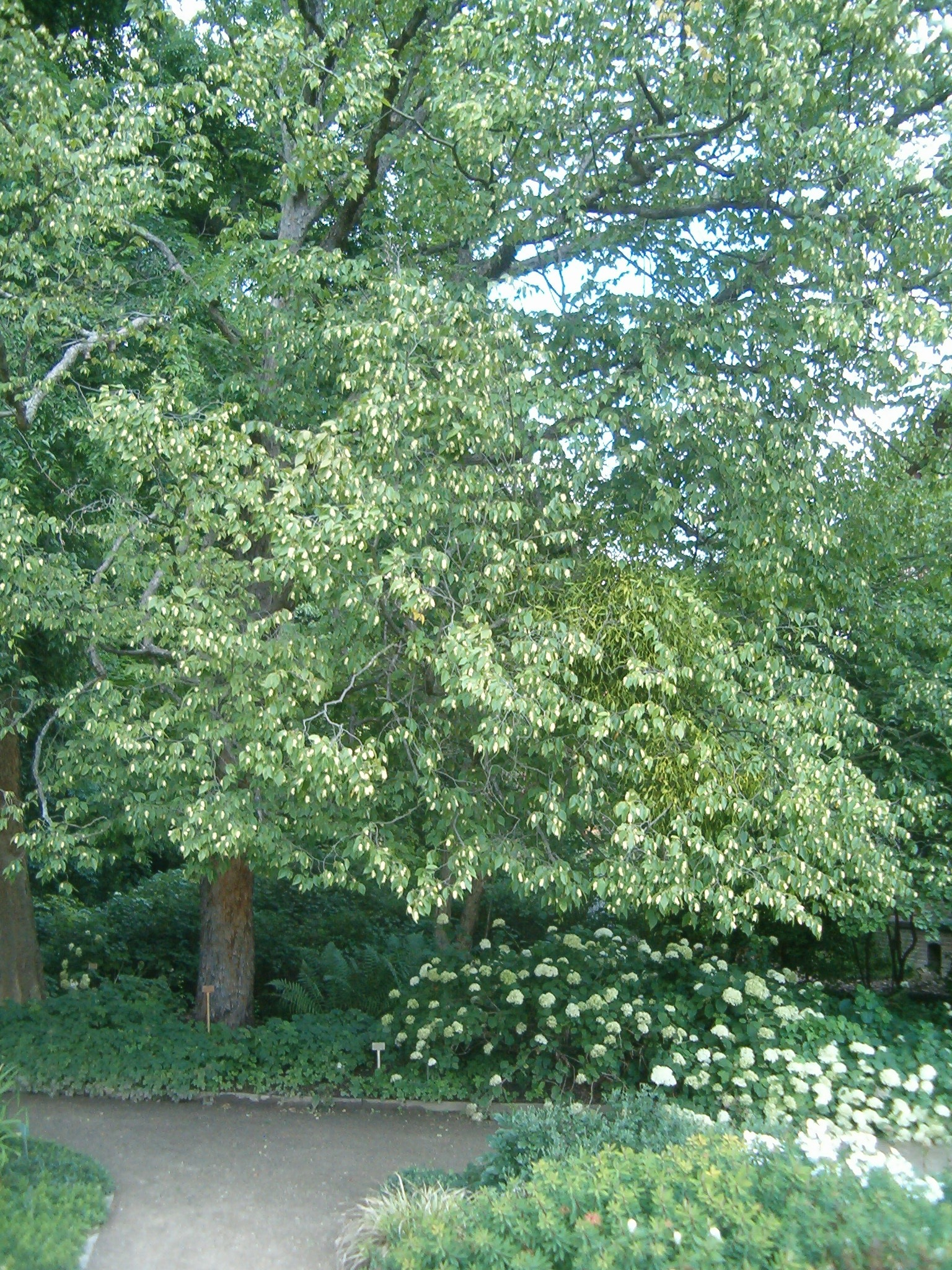 At Botanical Gardens Berlin-Dahlem Species Ostrya virginiana'